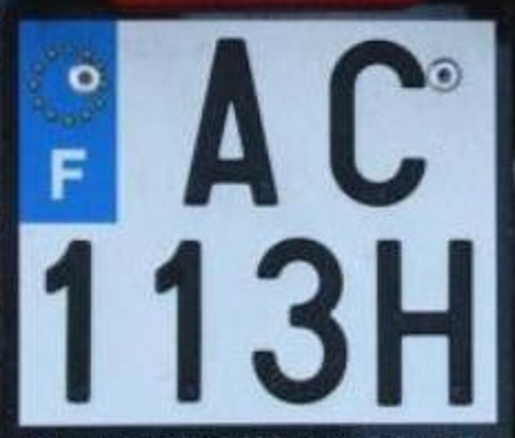 This is a French Eu motorcycle plate.